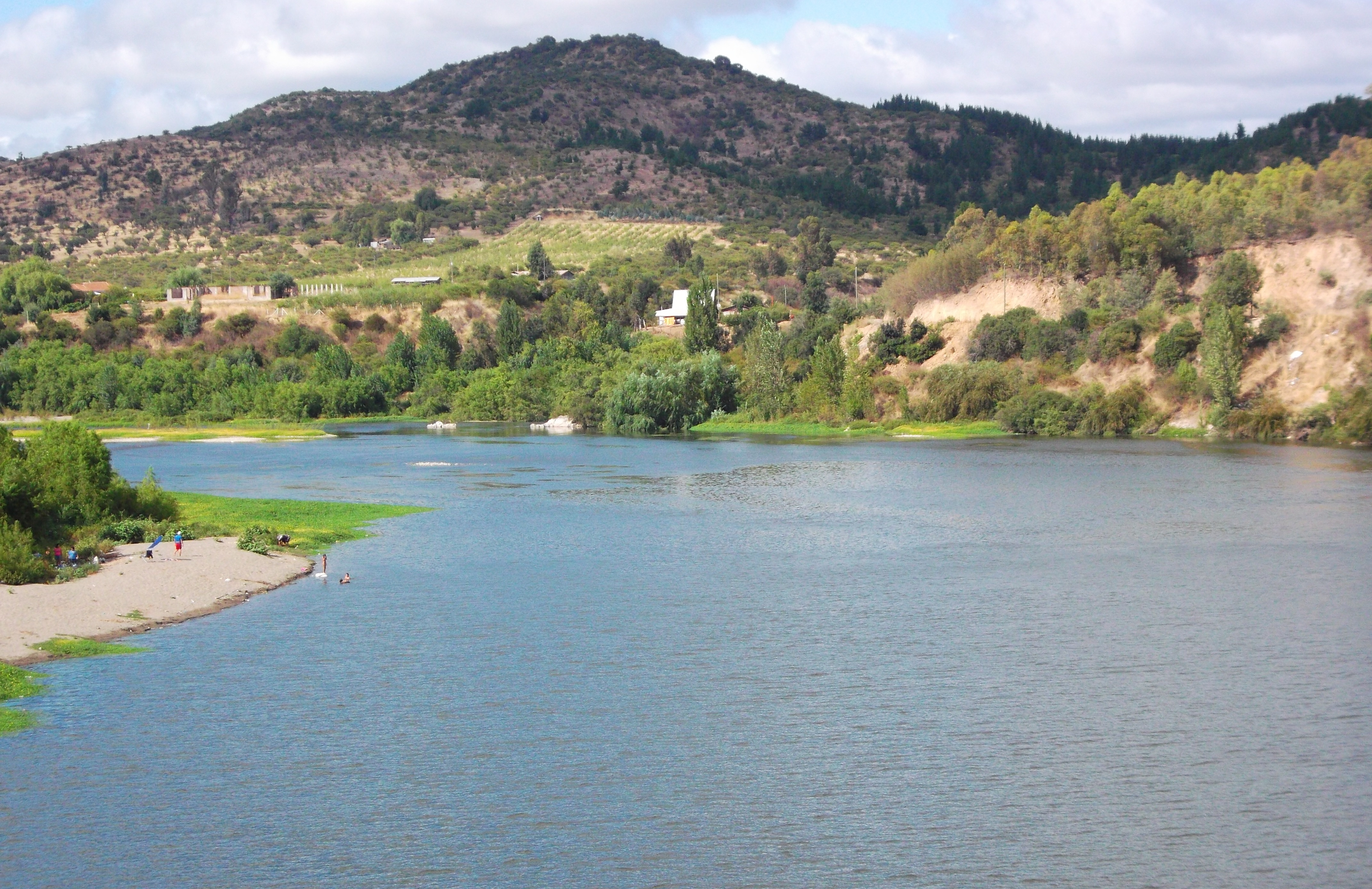 View of the Loncomilla River in San Javier, in the way to Constitución